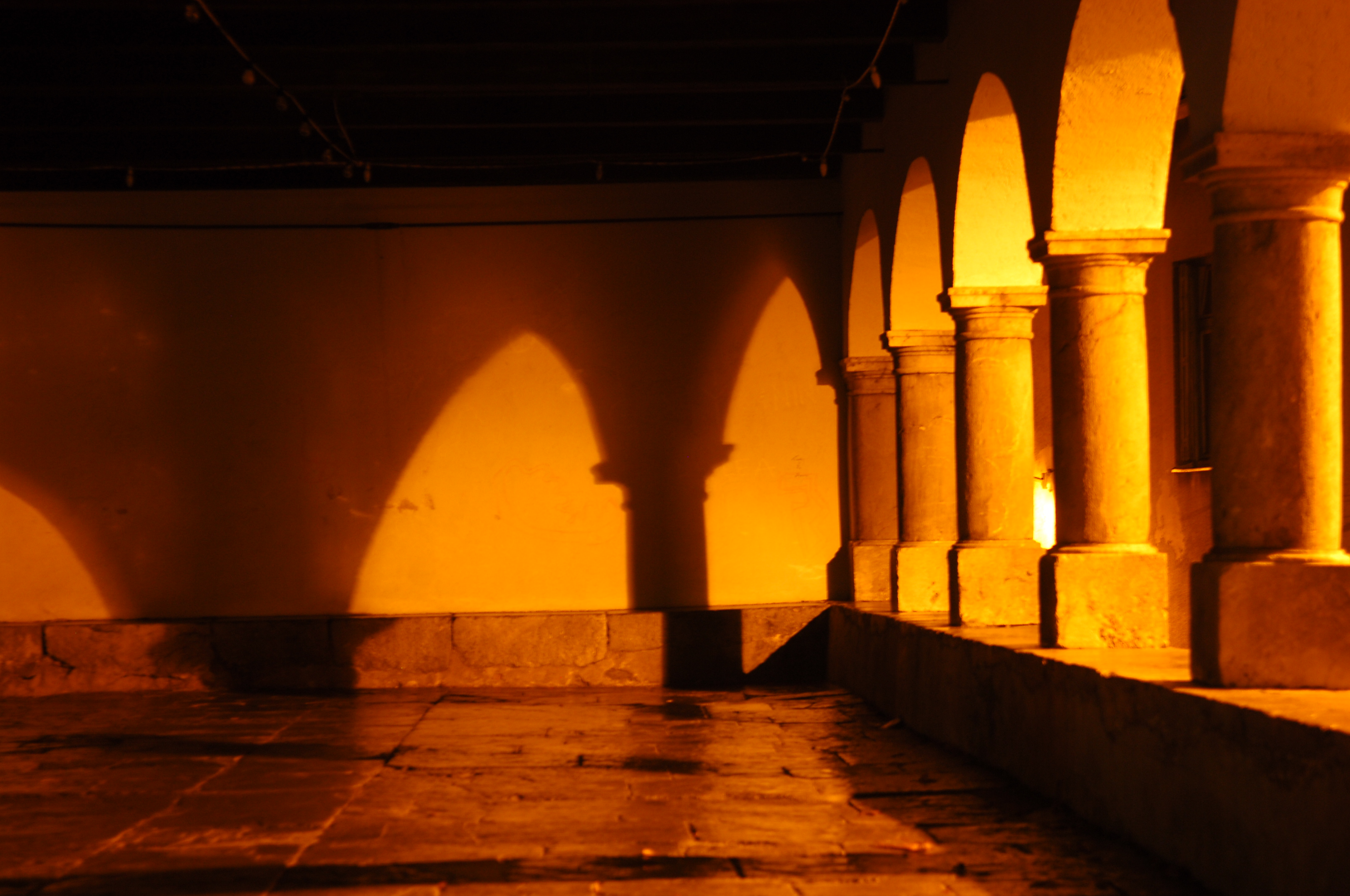 City of Kastav